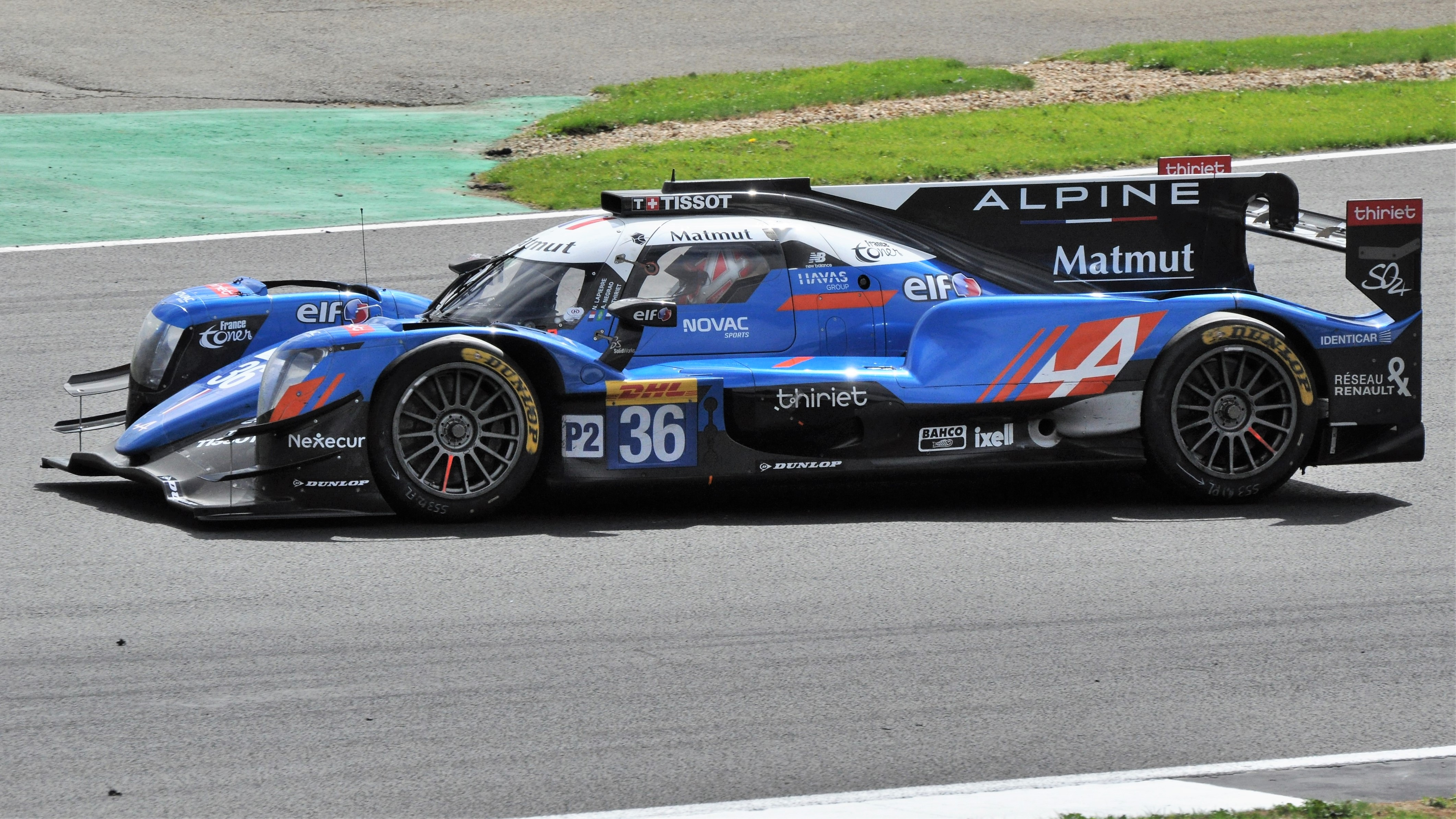 French driver Pierre Thiriet guides the number 36 Signatech-entered Alpine A470 car into Village corner during the 2018 6 Hours of Silverstone race. Thiriet and his co-drivers, Nicolas Lapierre and André Negrão, eventually finished third in the LMP2 class.